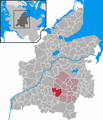 Locator maps of municipalities in Schleswig-Holstein - District Rendsburg-Eckernförde